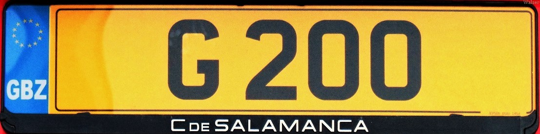 Gibraltar license plate, seen in Vaduz, Liechtenstein